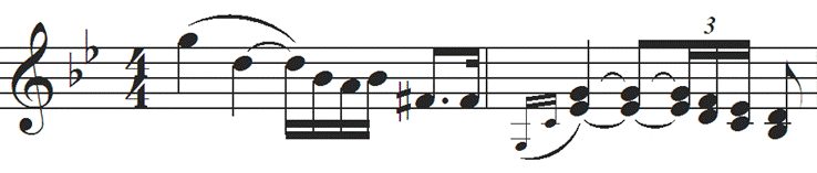 The main melody of Saint-Saëns's second piano concerto.